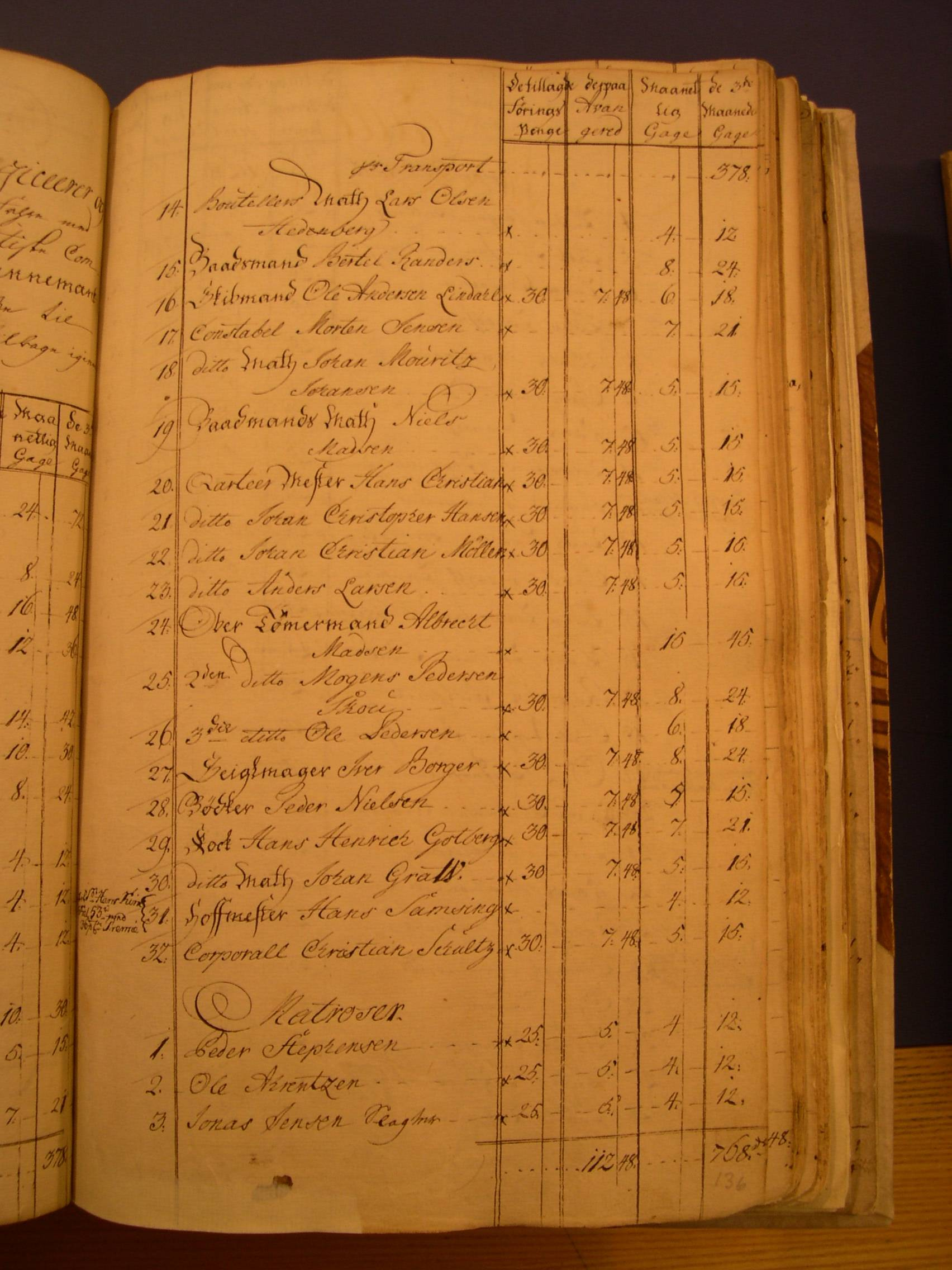 This is a picture of the original protocol document of the Danish ship Crown Princess of Denmark which went ashore at the coast of Mossel bay in 1752. The picture shows that Bertel Pedersen was already "Baadsman" enrolled among the officers in 1748. The picture was taken by Palle Kvist at the Copenhagen Archives.